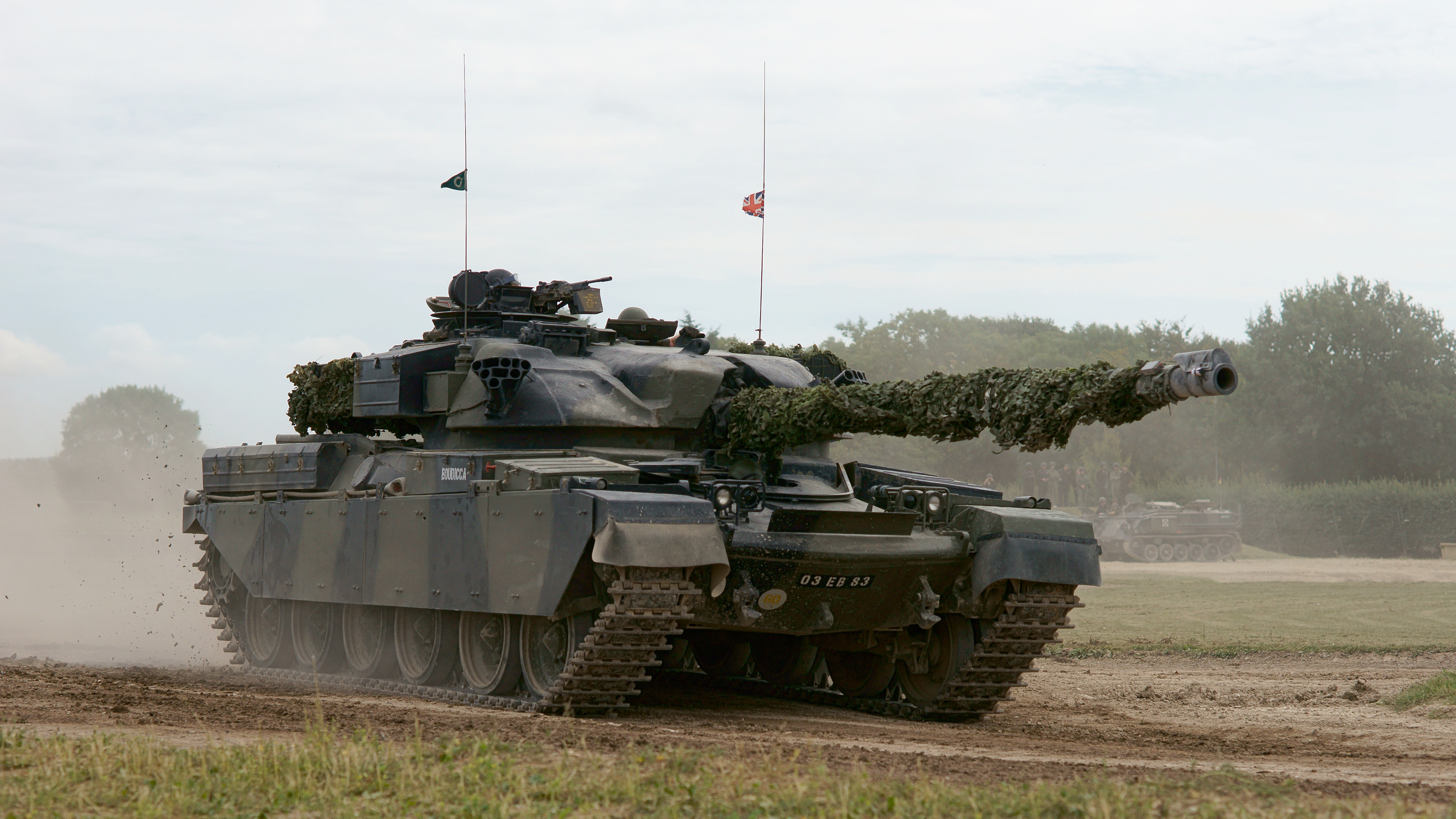 Chieftain tank in action at the Bovington Tank Museum.